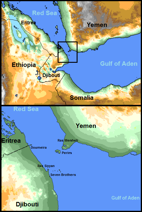 The Bab-el-Mandeb Map